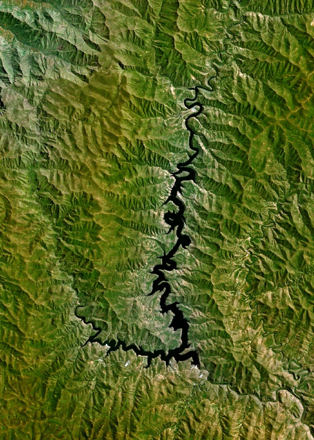 Satellite picture of Katse Dam reservoir, Lesotho.